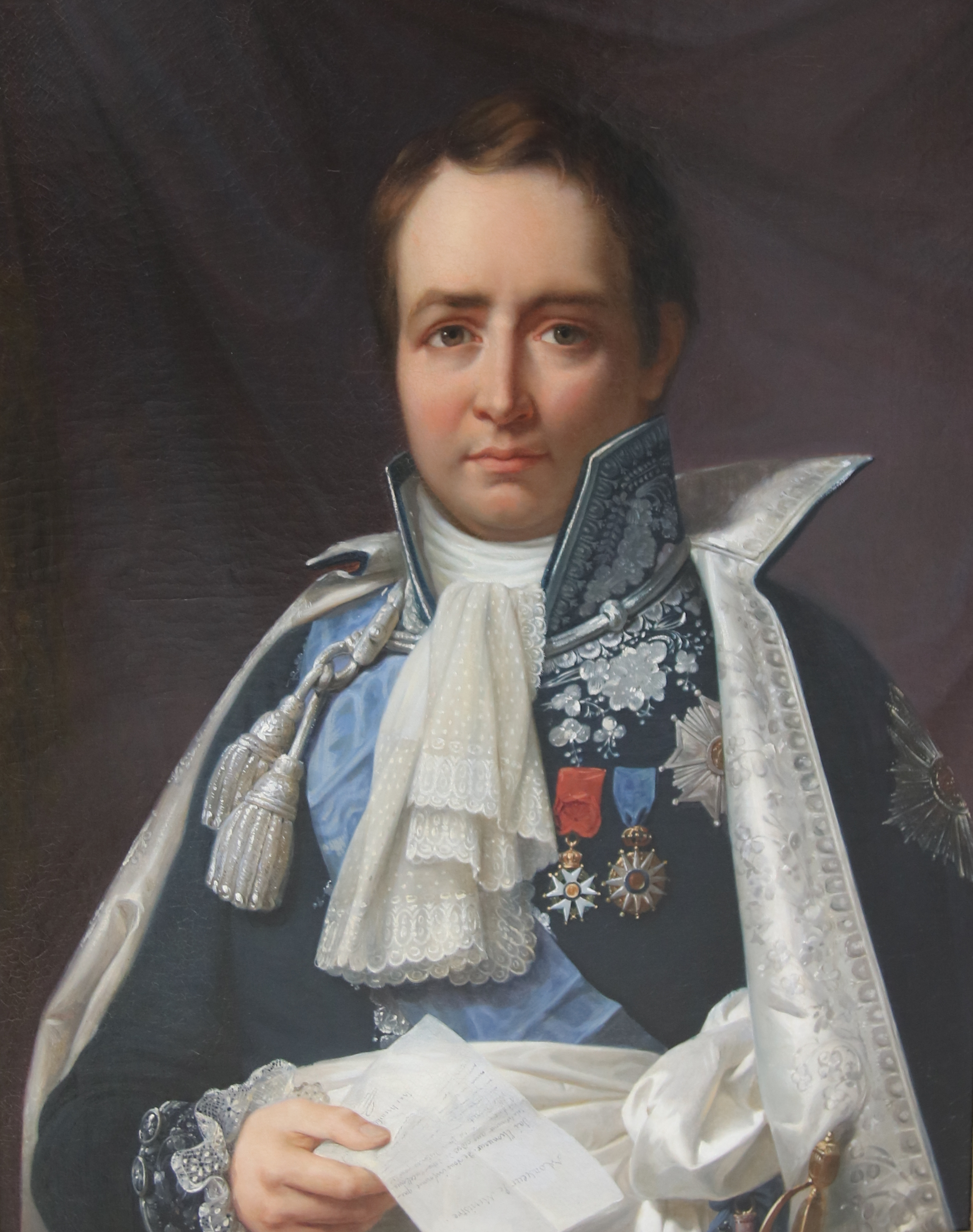 Jean-Pierre Bachasson, Seigneur et 1er Comte de Montalivet (Neunkirch, now part of Sarreguemines, Moselle, 5 July 1766 – Château de Lagrange,[1] Cher, 22 January 1823) was a French statesman and Peer of France. Picture in oil on canvas taken from the permanent collection of the Museum of Beaux-Arts in Saint-Lo. Painting was restored 2014.